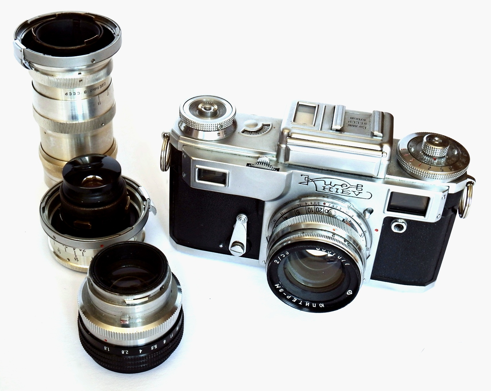 Kiev 4 / КИЕВ 4 / КИЇВ 4 + Lenses (1)